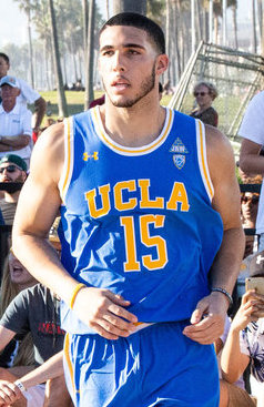 LiAngelo Ball @Venice Beach playing in a UCLA scrimmage